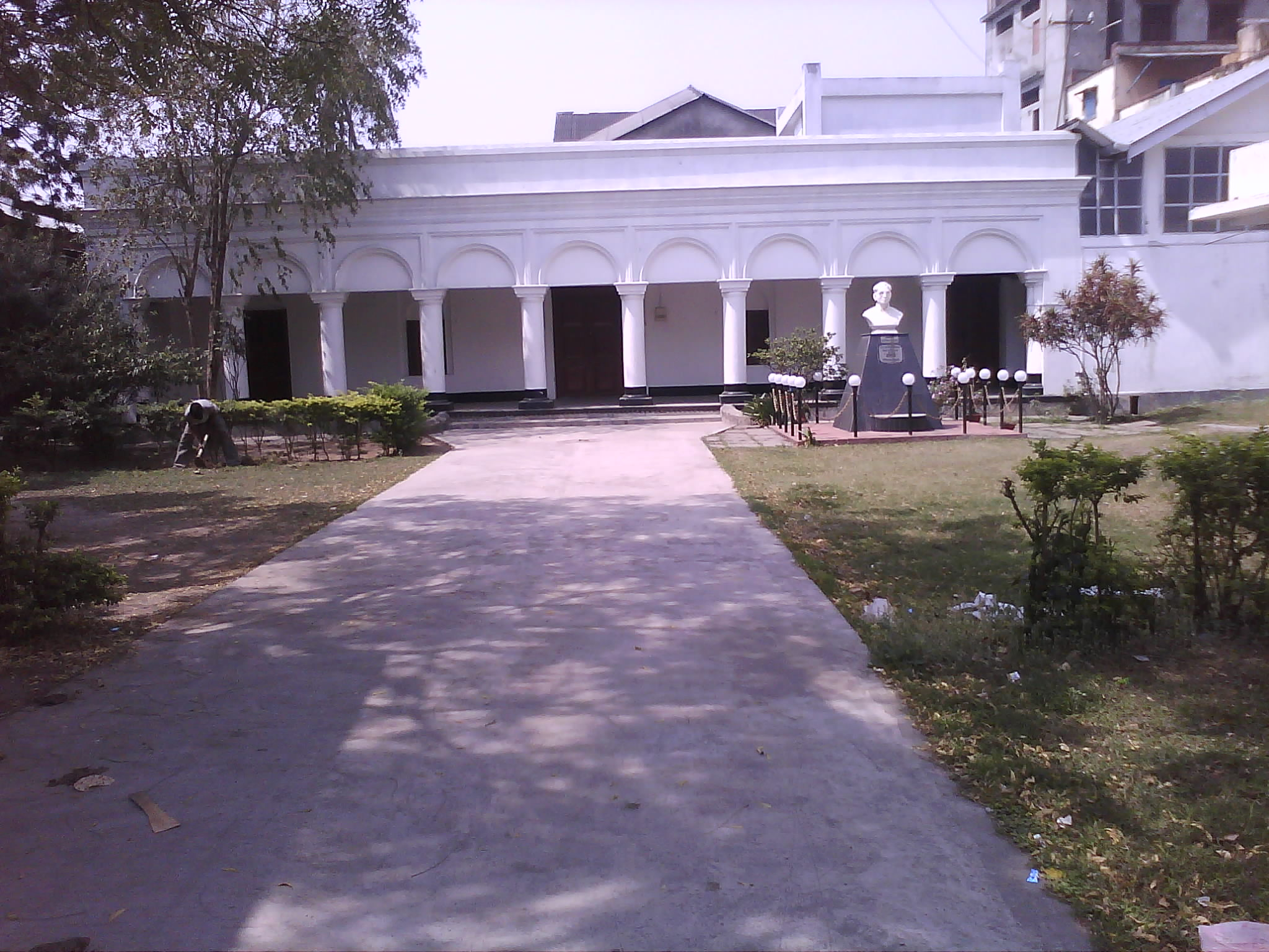 Entrance of Poki or Jyoti Bharati.